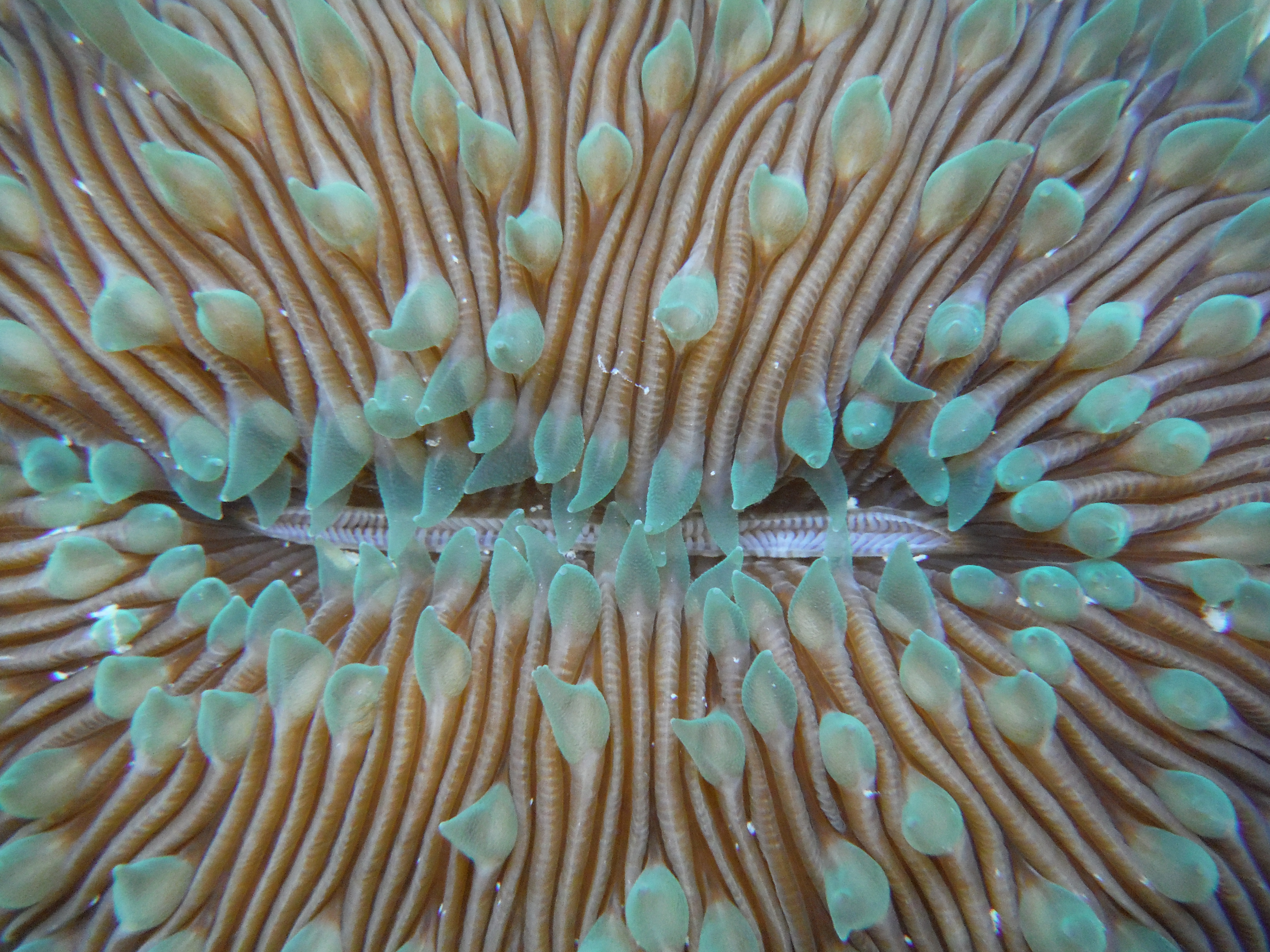 Fungia scutaria mouth. Kewalo, Hawaii